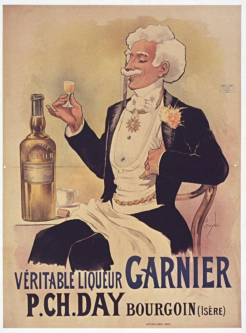 Véritable liqueur Garnier. P. Ch. Day, Bourgoin (Isère), poster signed Guydo [Joseph Robert Guillaume Le Barrois d'Orgeval, aka]. Affiches Camis (Paris).